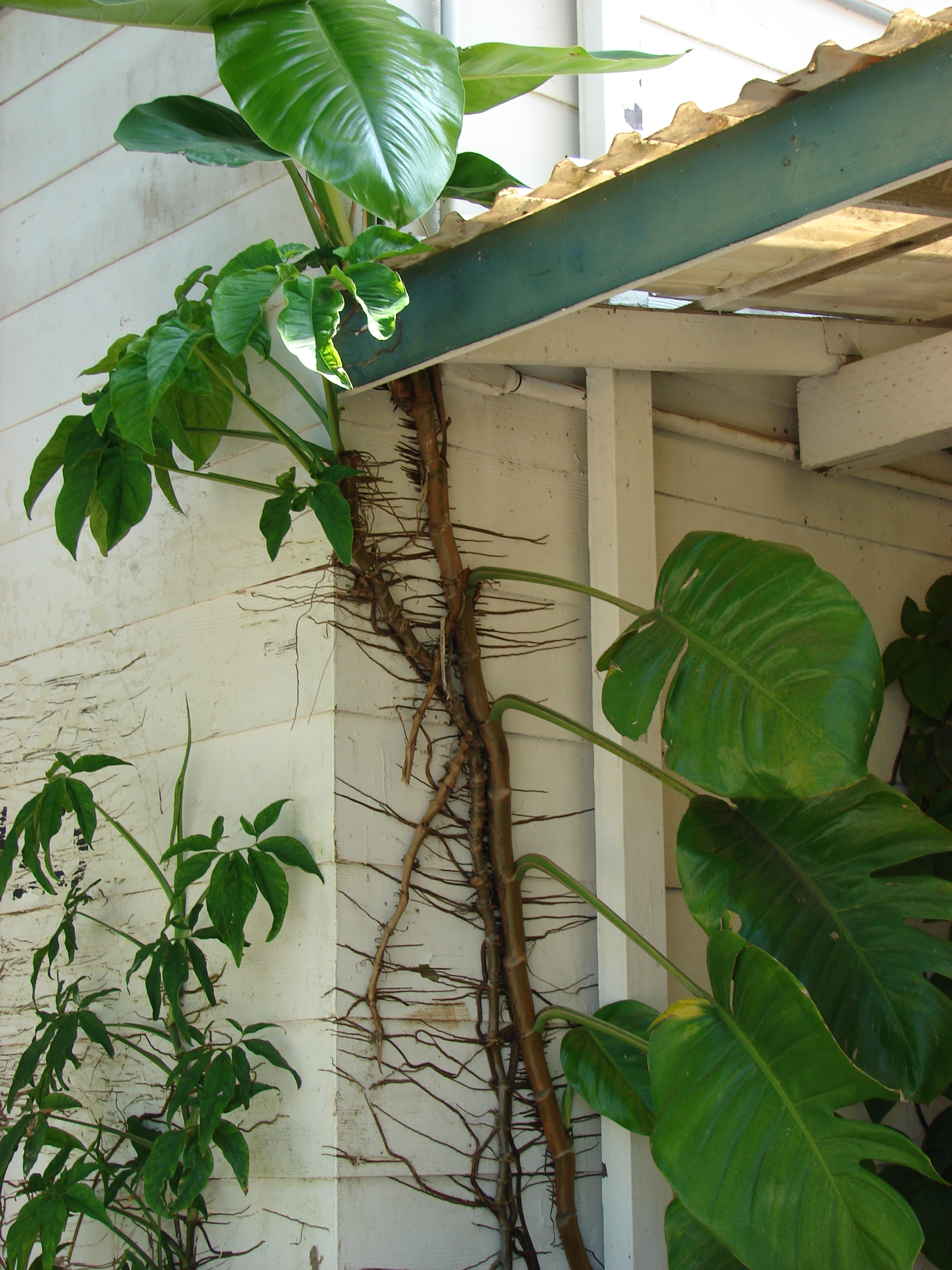 Epipremnum aureum (climbing on house with Syngonium). Location: Midway Atoll, Halsey Dr around residences Sand Island